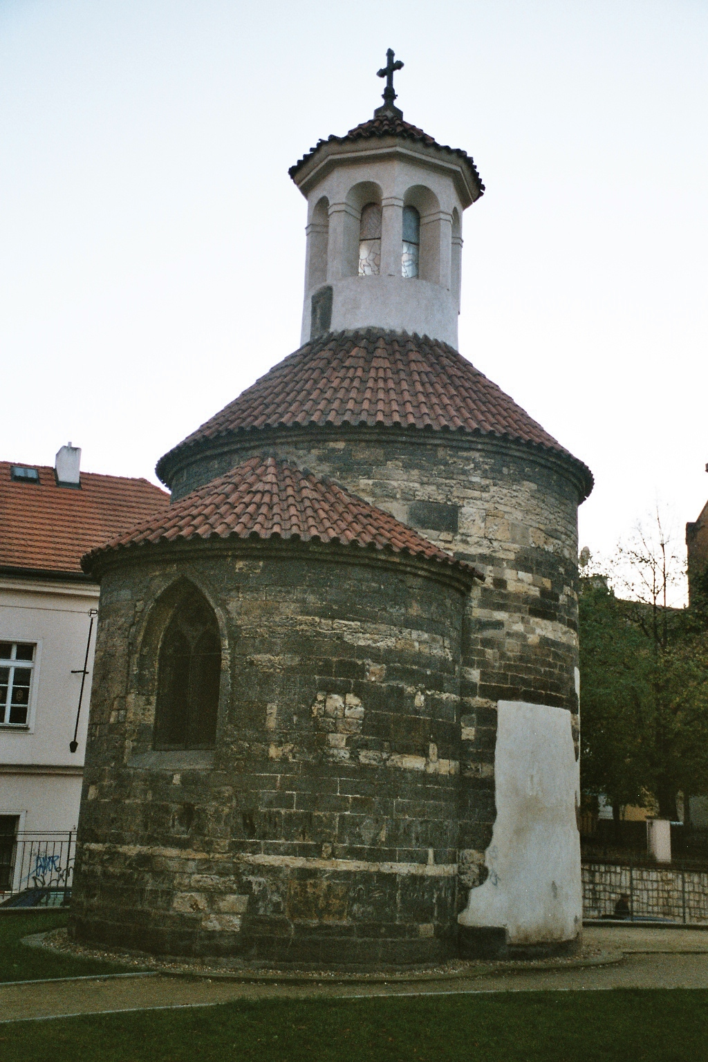 Rotunda of St Longin, Nové Město, Prague